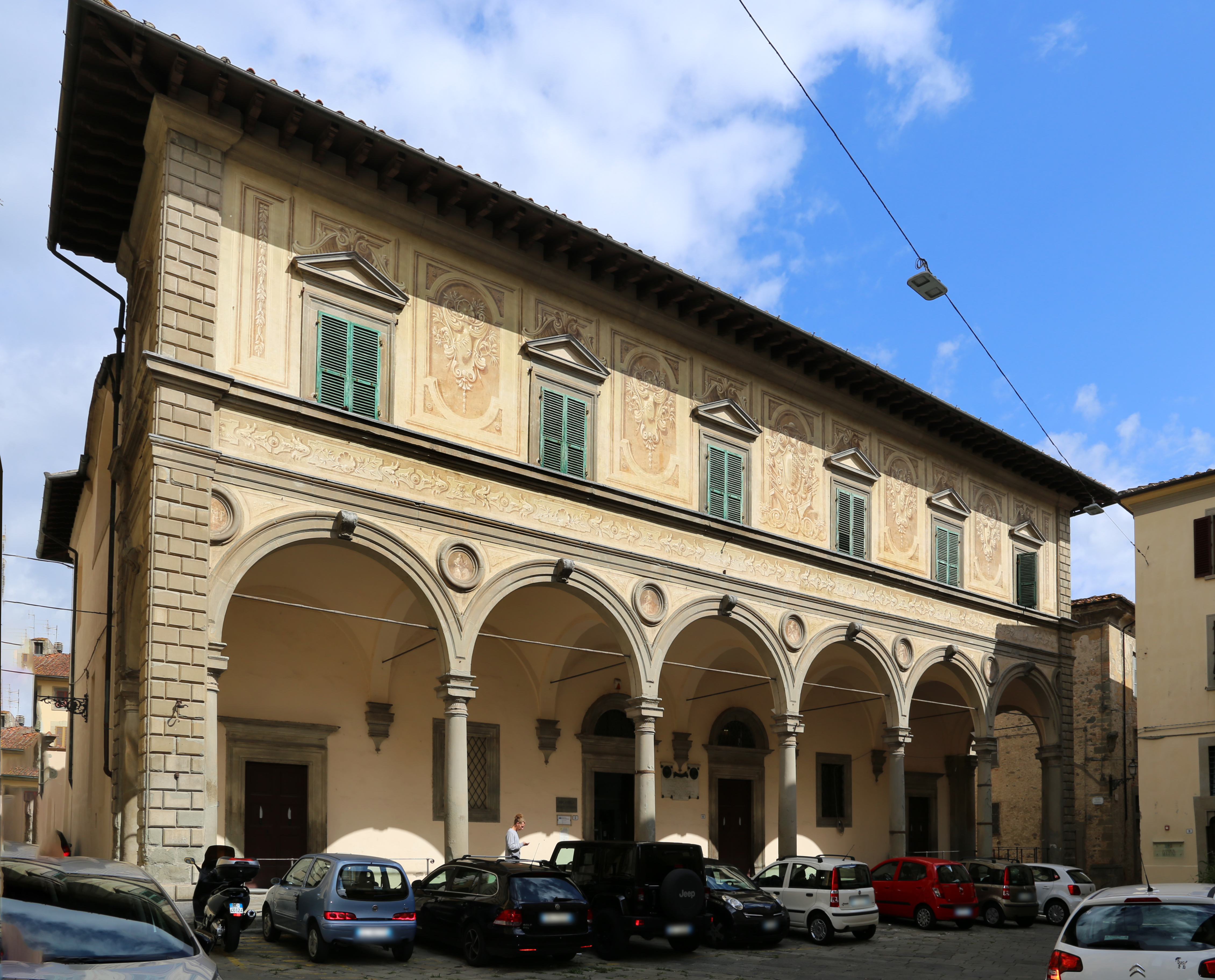 Pistoia, miscellany